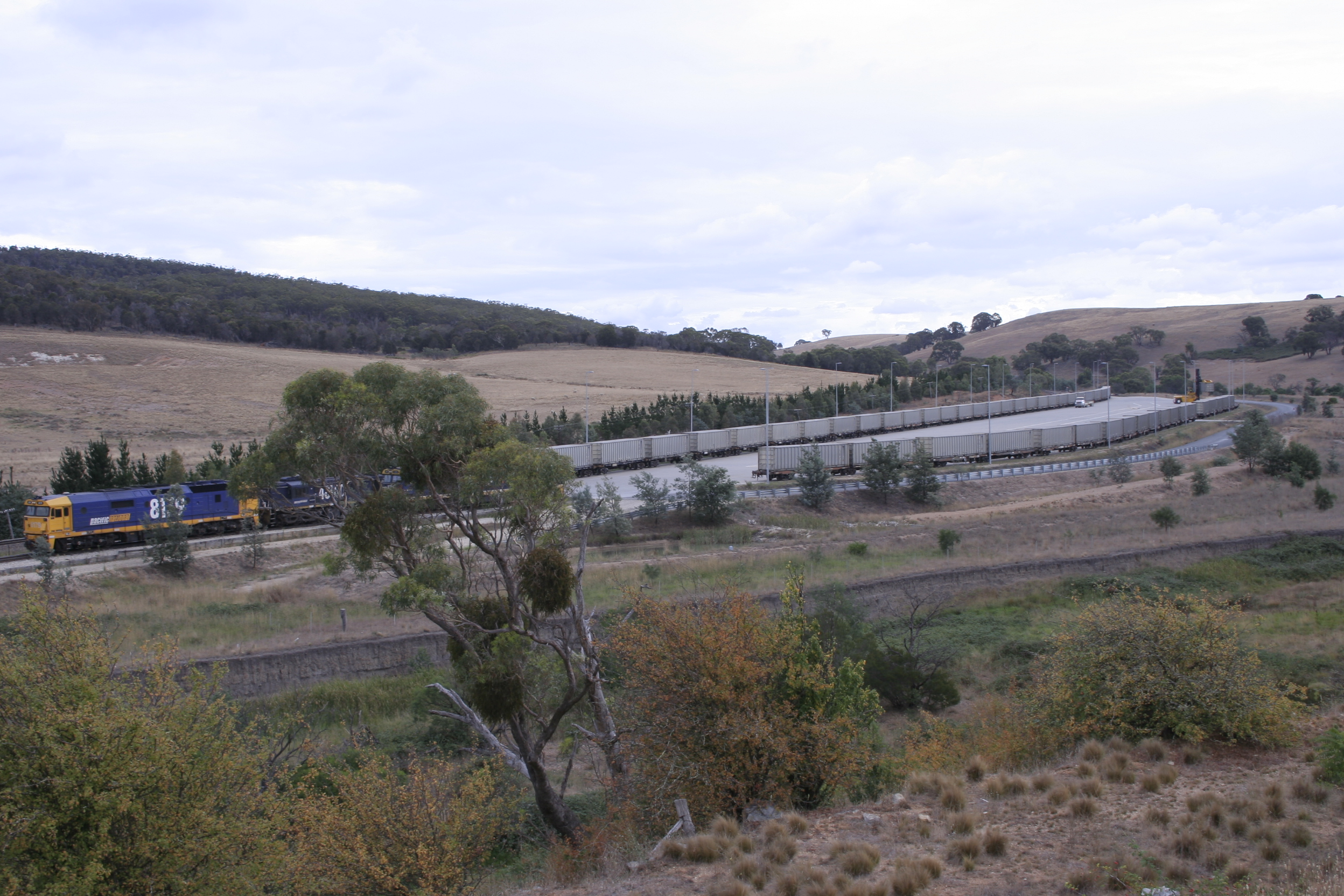 Intermodal facility for garbage south of Tarago